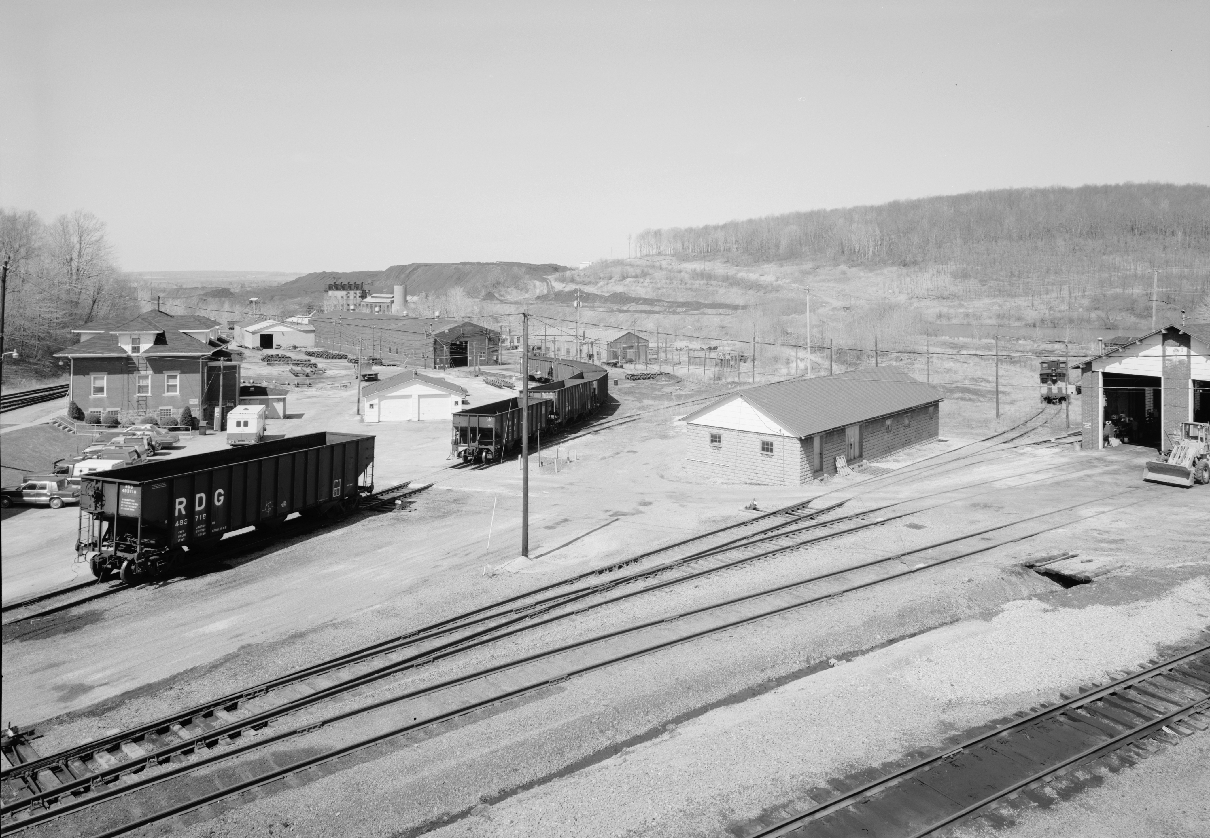 GENERAL VIEW OF RAILROAD YARD LOOKING NORTH. Office and Car and Wheel Shops to left, Engine House No. 1 to right. Ebensburg Processing Plant and Powerhouse (Colver Mine) in far left background. TITLE: Cambria & Indiana Railroad, Colver vicinity, Cambria County, PA CALL NUMBER: HAER PA,11-COLV.V,1- DATE: Documentation compiled after 1968. CREATOR: Historic American Engineering Record, creator RELATED NAME(S):Wrigley, John W., Lee, A. W., Coleman & Weaver Company, Ebensburg Coal Company, Madrid, transmitter NOTE: Survey number HAER PA-238 Building/structure dates: 1912 initial construction Significance: The Cambria & Indiana Railroad, a captive railroad of the Ebensburg Coal Company, was one of the top ten coal producers in Cambria County in the late 1910s and 20s. SUBJECTS: PENNSYLVANIA--Cambria County--Colver vicinity railroads COLLECTION: Historic American Engineering Record (Library of Congress) REPOSITORY: Library of Congress, Prints and Photograph Division, Washington, D.C. 20540 USA